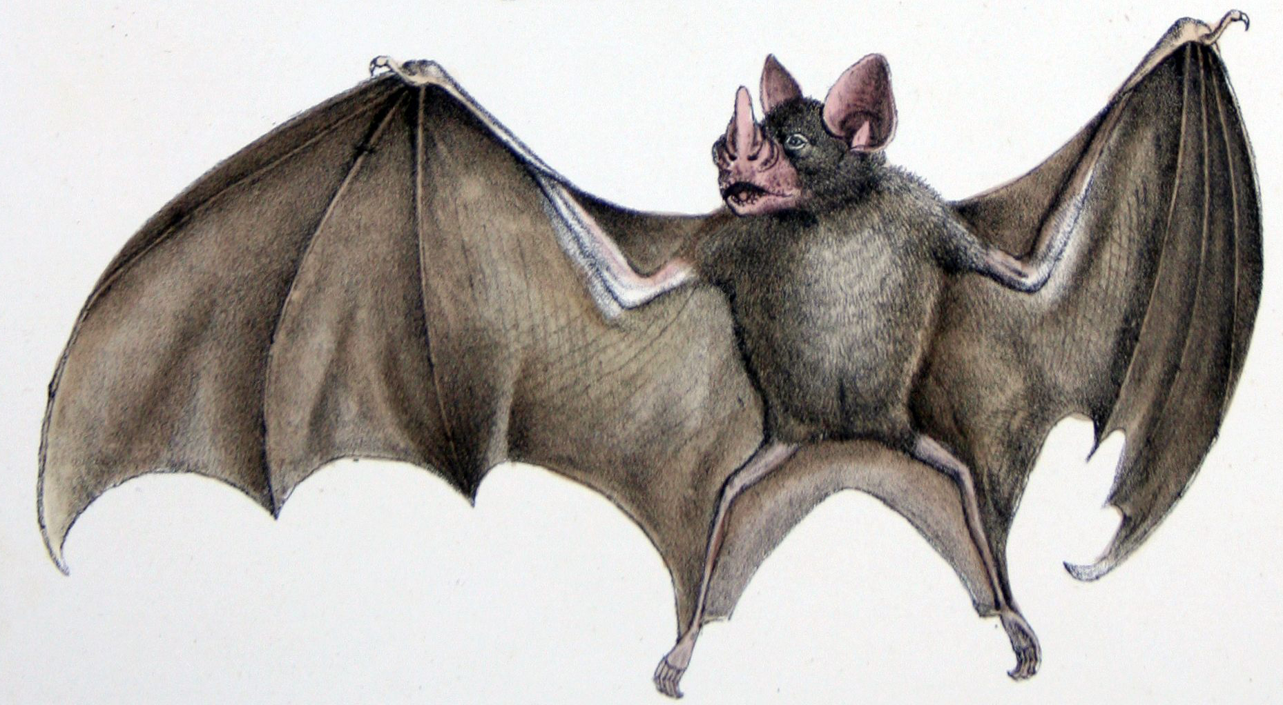 Phyllostomidae sp.